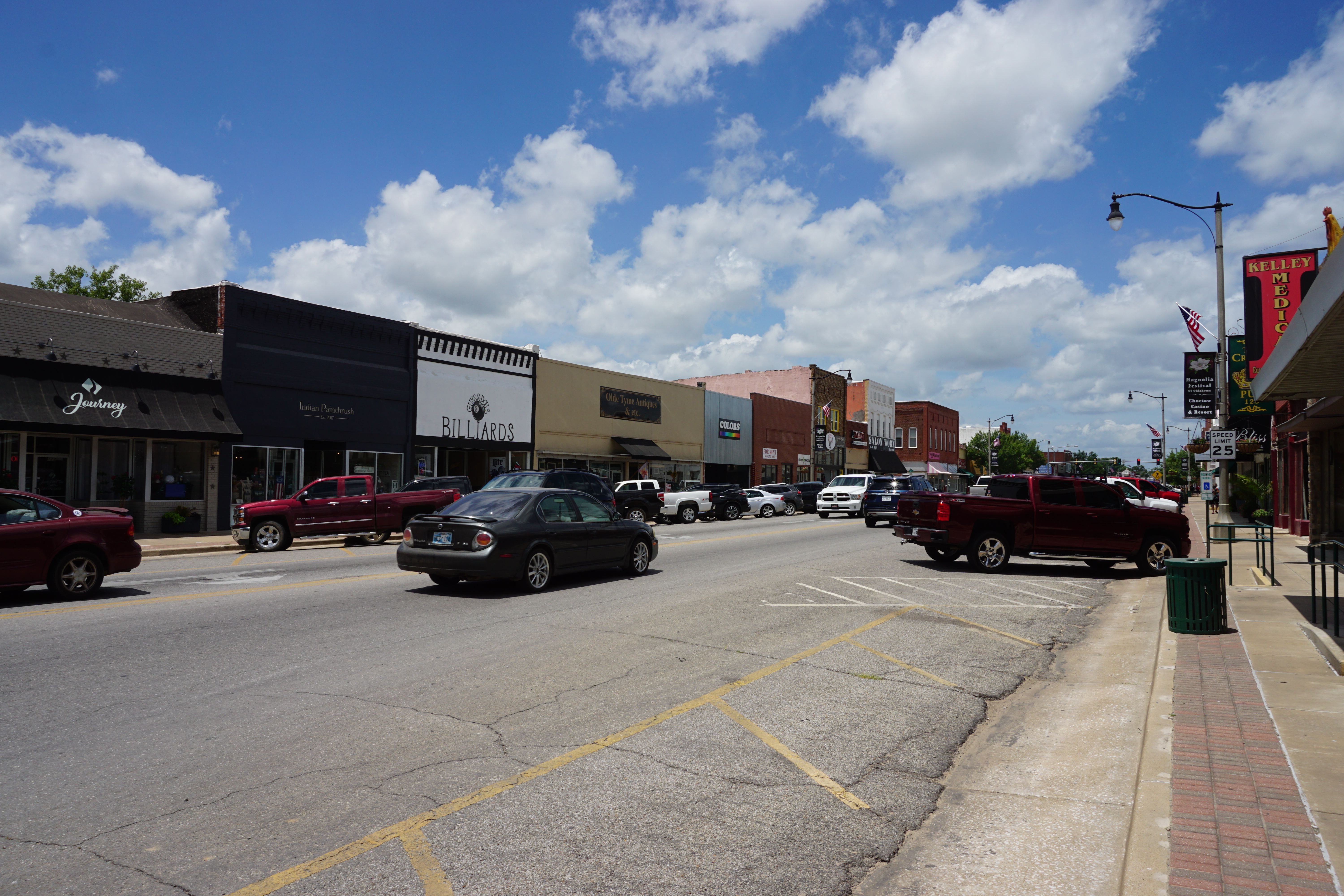 West Main Street in Durant, Oklahoma (United States).